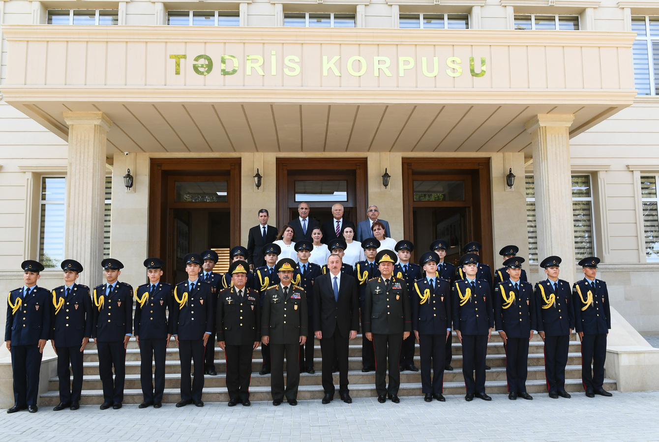 Ilham Aliyev viewed conditions created at newly-reconstructed Military Lyceum named after Jamshid Nakhchivanski